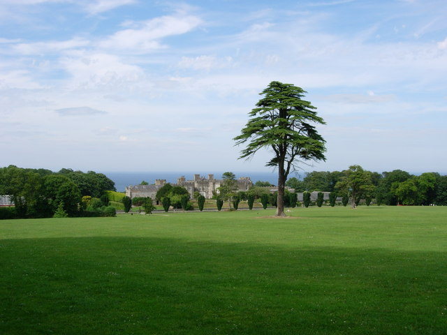 Ardgillan Castle View of Ardgillan Castle from the grounds